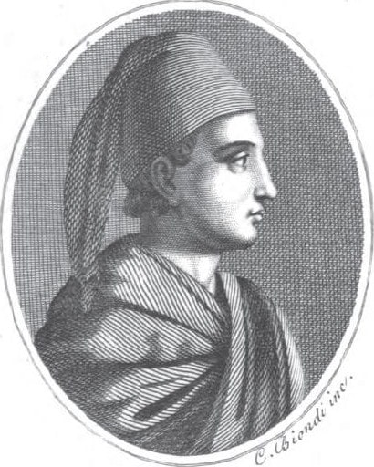 Elpis, wife of Severinus Boethius and poetess